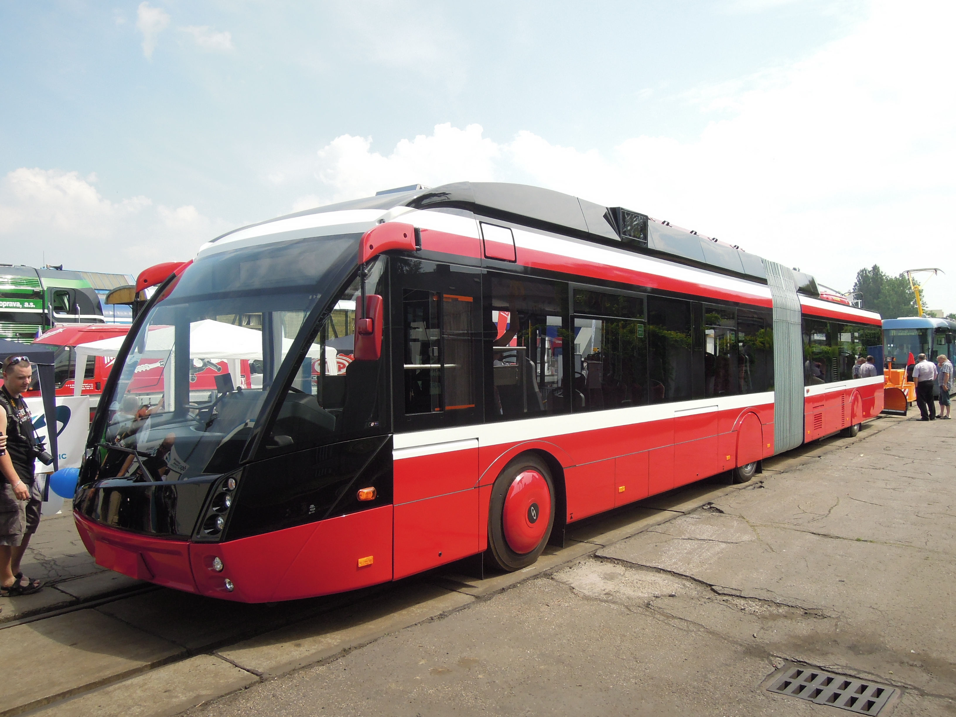 Solaris Trollino 18AC MetroStyle trolleybus at the Czech Raildays 2012 trade fair in Ostrava, Czech Republic. Built 2012, Salzburg AG from Austria operator.